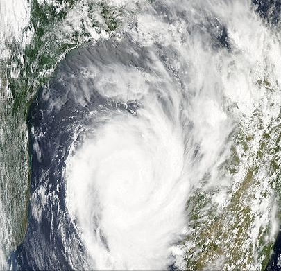 Severe Tropical Storm Fanele on January 19, 2009.